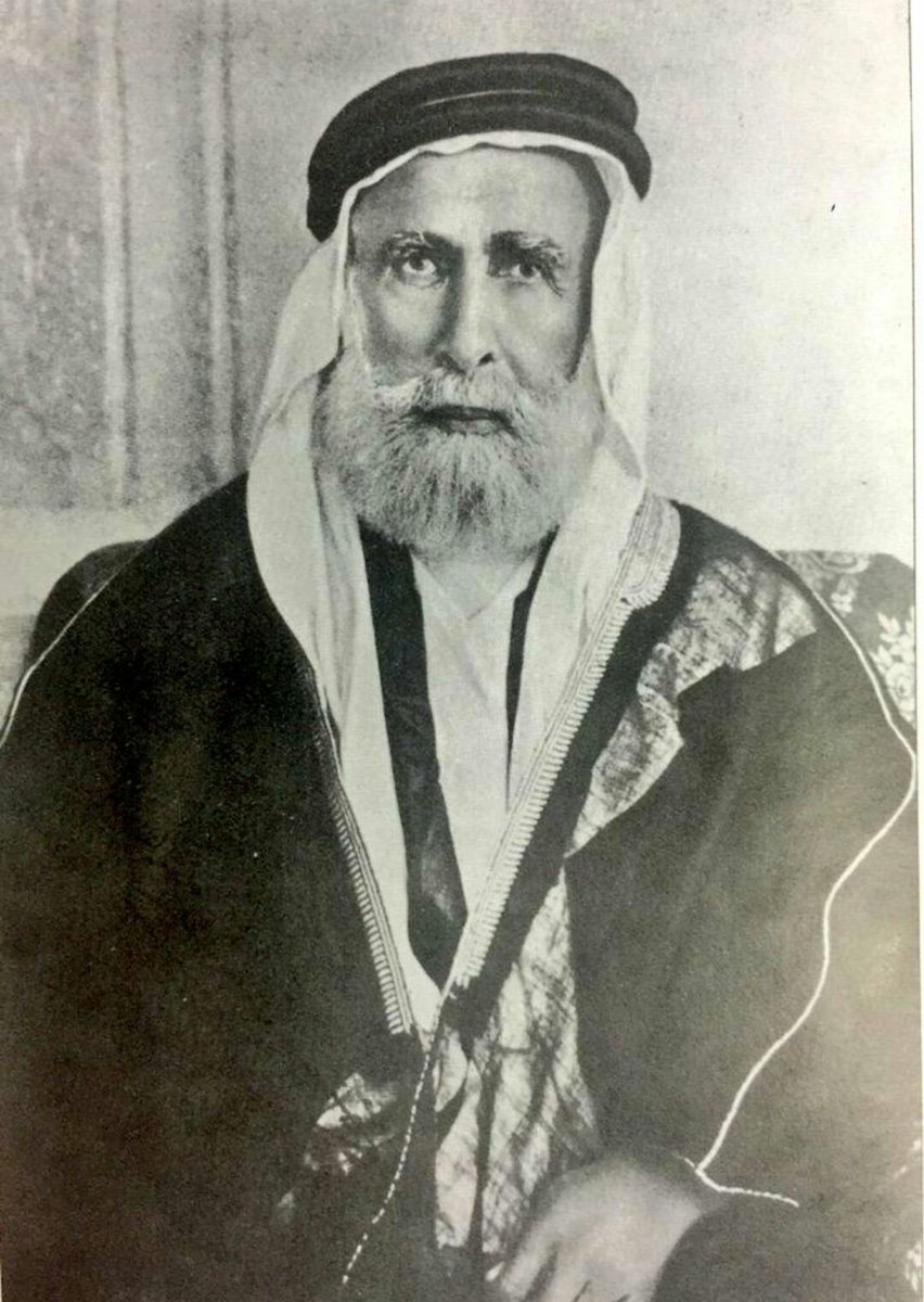 Sharif Husayn, the Prince of Mecca, who declared a military uprising against the Ottoman Empire from the Arabian Desert on June 10, 1916.